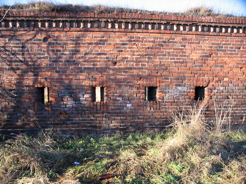 Embrasures in a brick wall of the "Zubr" bastion in Gdańsk